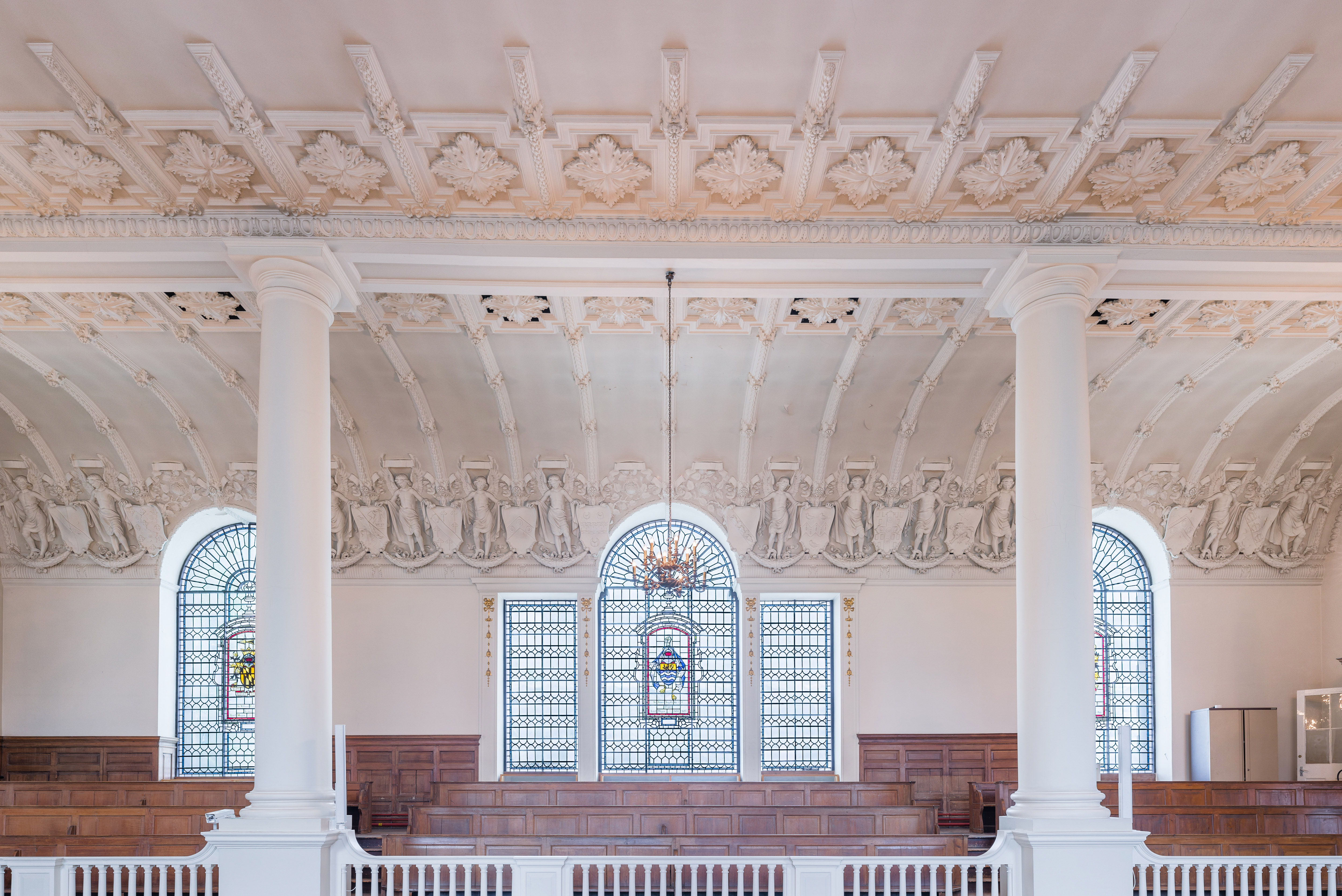 Ceiling detail at St Botolph's Aldgate church in London, England.